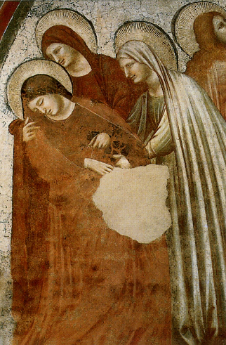 Crocifissione (fragment)